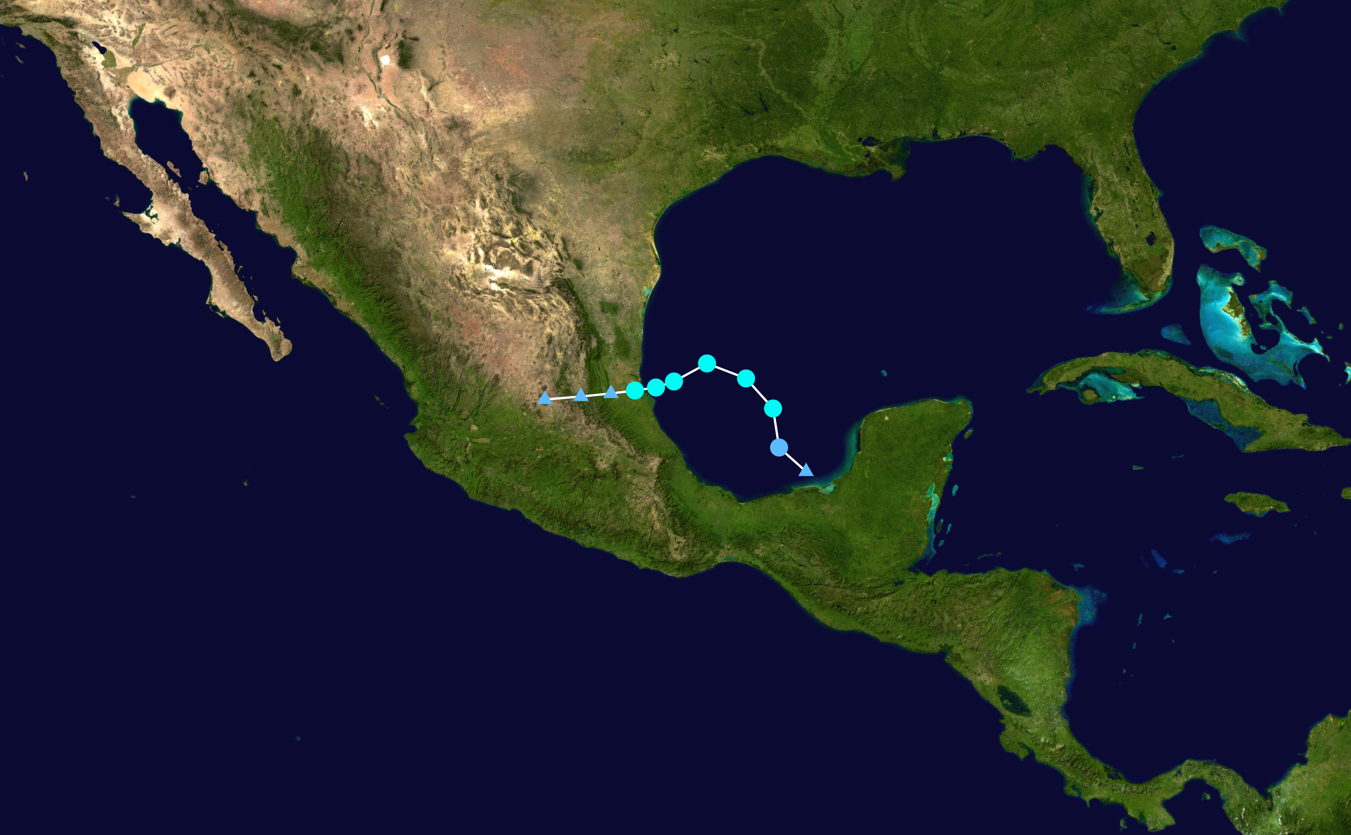 Track map of Tropical Storm Dolly of the 2014 Atlantic hurricane season. The points show the location of the storm at 6-hour intervals. The colour represents the storm's maximum sustained wind speeds as classified in the Saffir–Simpson scale (see below), and the shape of the data points represent the nature of the storm, according to the legend below. Saffir–Simpson scale Tropical depression≤38 mph≤62 km/h Category 3111–129 mph178–208 km/h Tropical storm39–73 mph63–118 km/h Category 4130–156 mph209–251 km/h Category 174–95 mph119–153 km/h Category 5≥157 mph≥252 km/h Category 296–110 mph154–177 km/h Unknown Storm type Tropical cyclone Subtropical cyclone Extratropical cyclone / Remnant low / Tropical disturbance / Monsoon depression